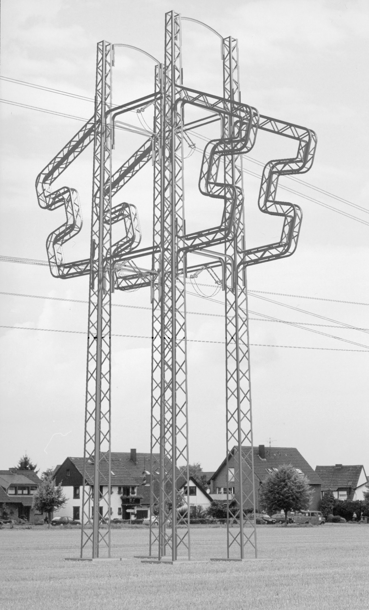 B-732 R. STM, Eisen, 1997 3D Modell